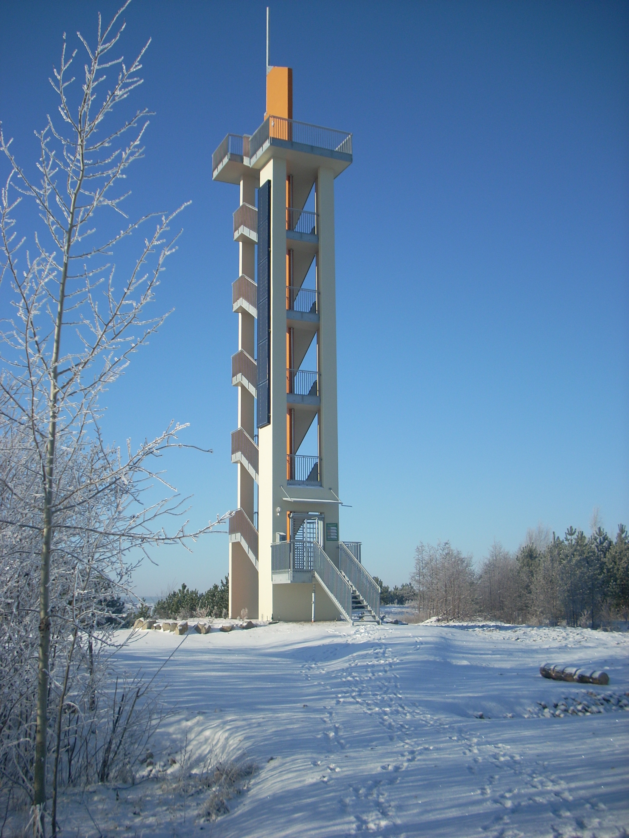 Tower Aussichtsturm Neuberzdorfer Höhe in the near of the Berzdorfer See